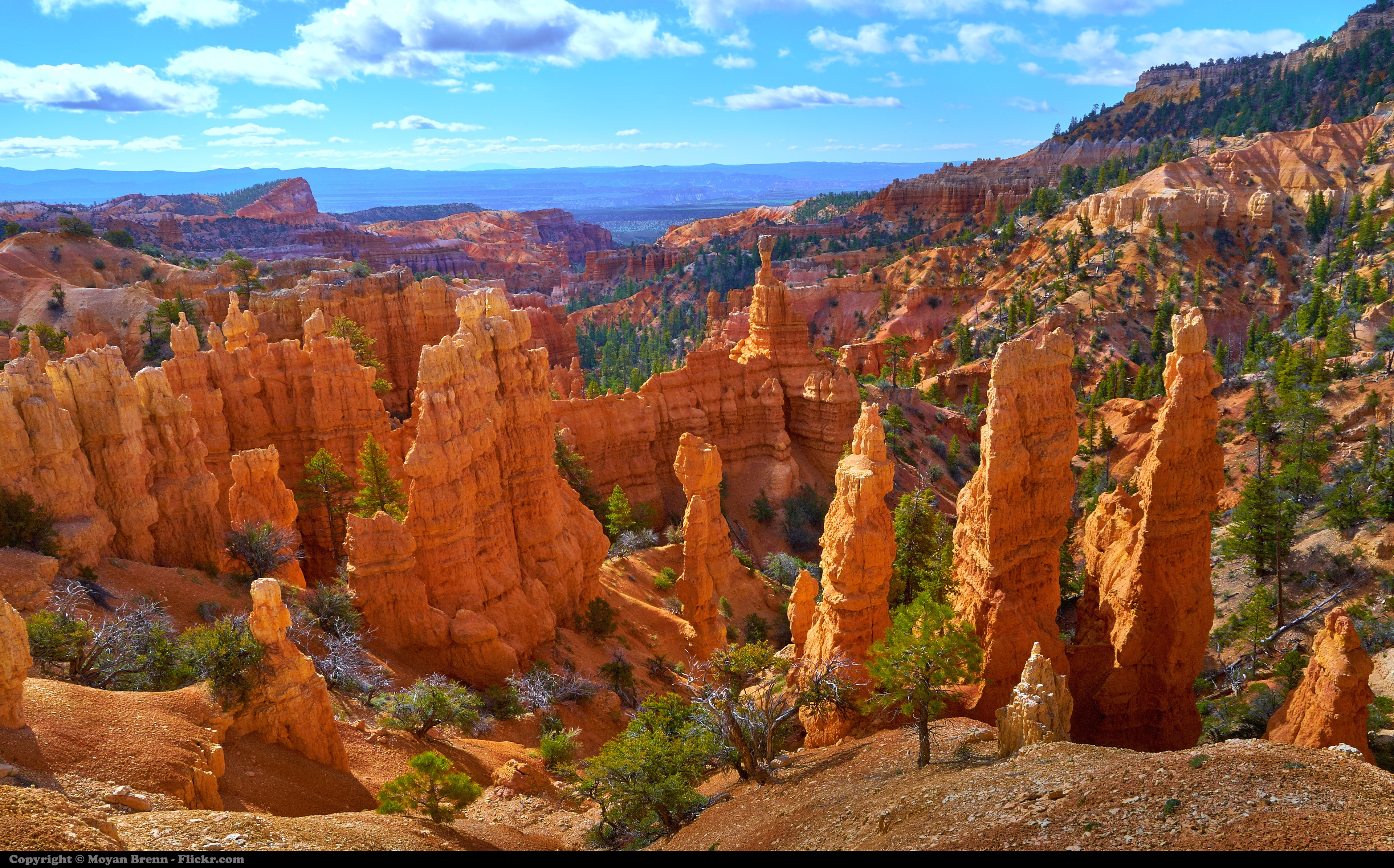 wide view from the edge in the morning